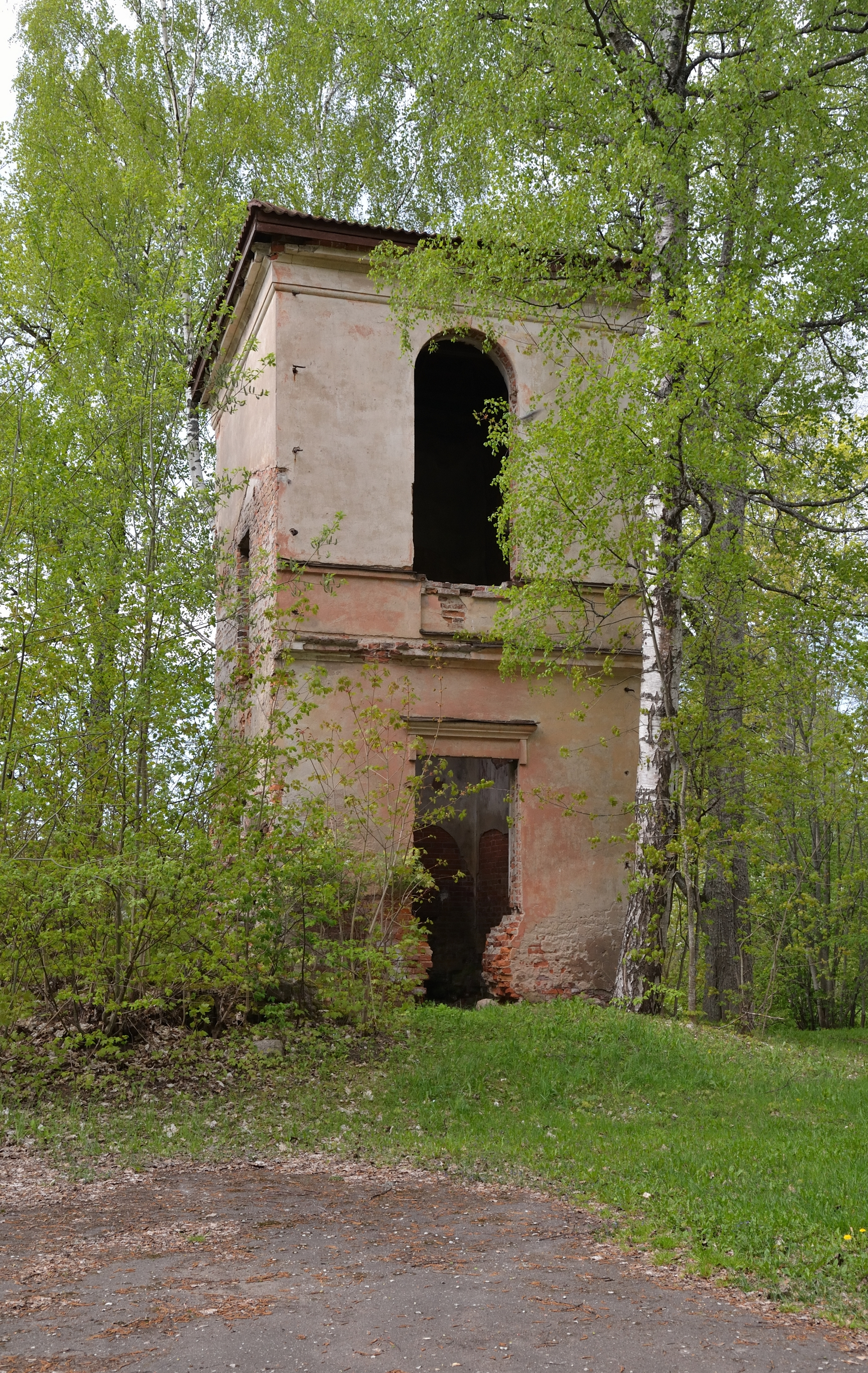 Roela manor main building ruins